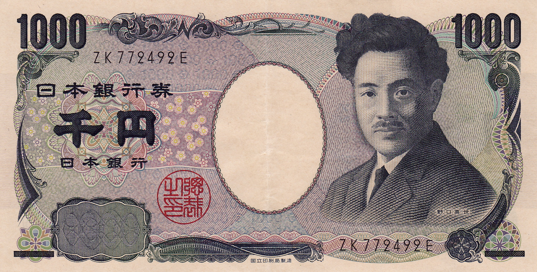 Image of Hideyo Noguchi on a 1000 yen note.